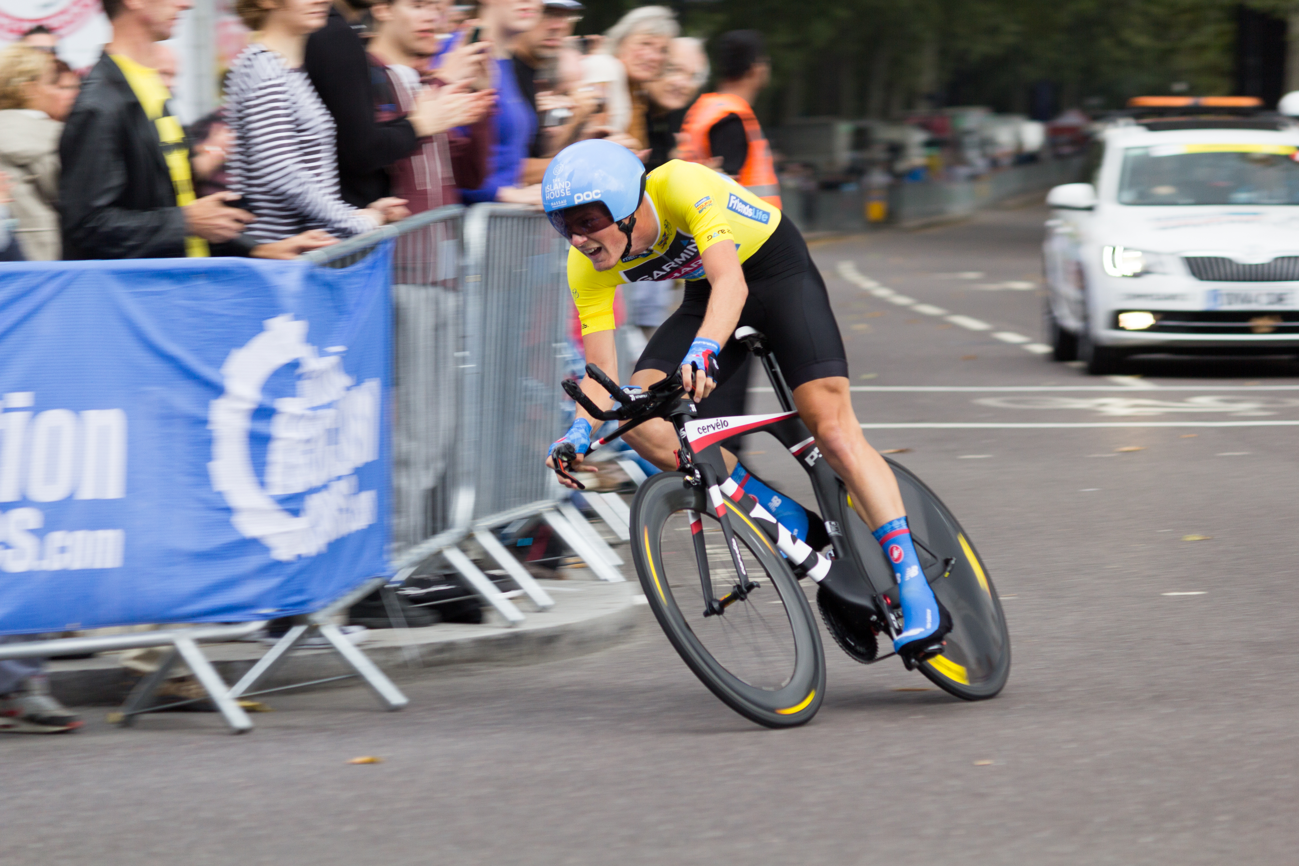 Tour of Britain 2014 stage 8a - London time trial